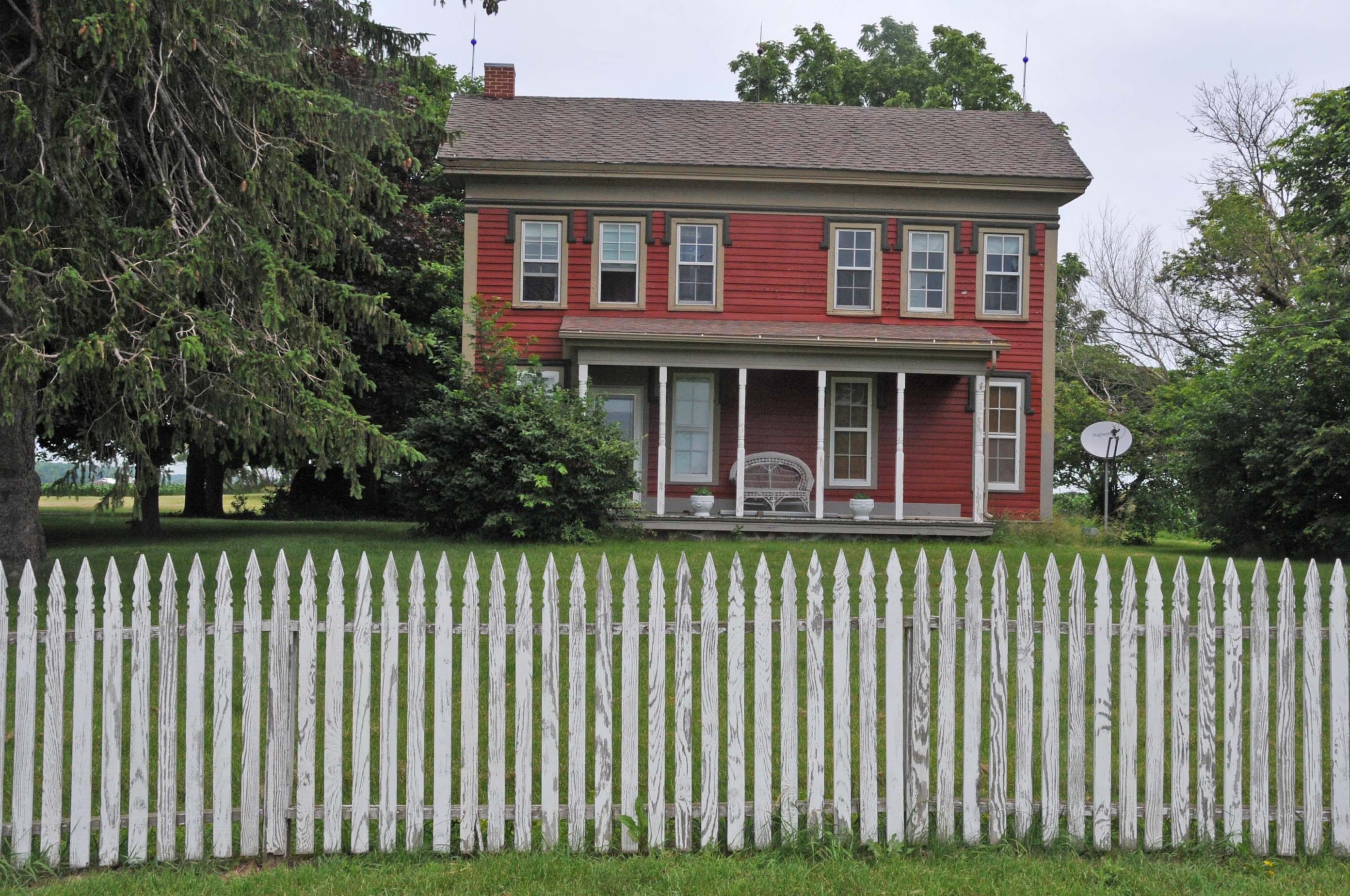 CIRCA 1855 GREEK REVIAL STYLE I HOUSE